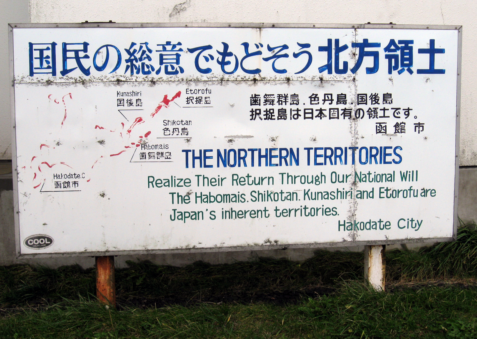 "This echoes the sign I saw in Nemuro, expressing the Japanese desire to get the disputed islands back from the Russians. This sign is at the back of one of the transmitter buildings at the top of Mt. Hakodate."